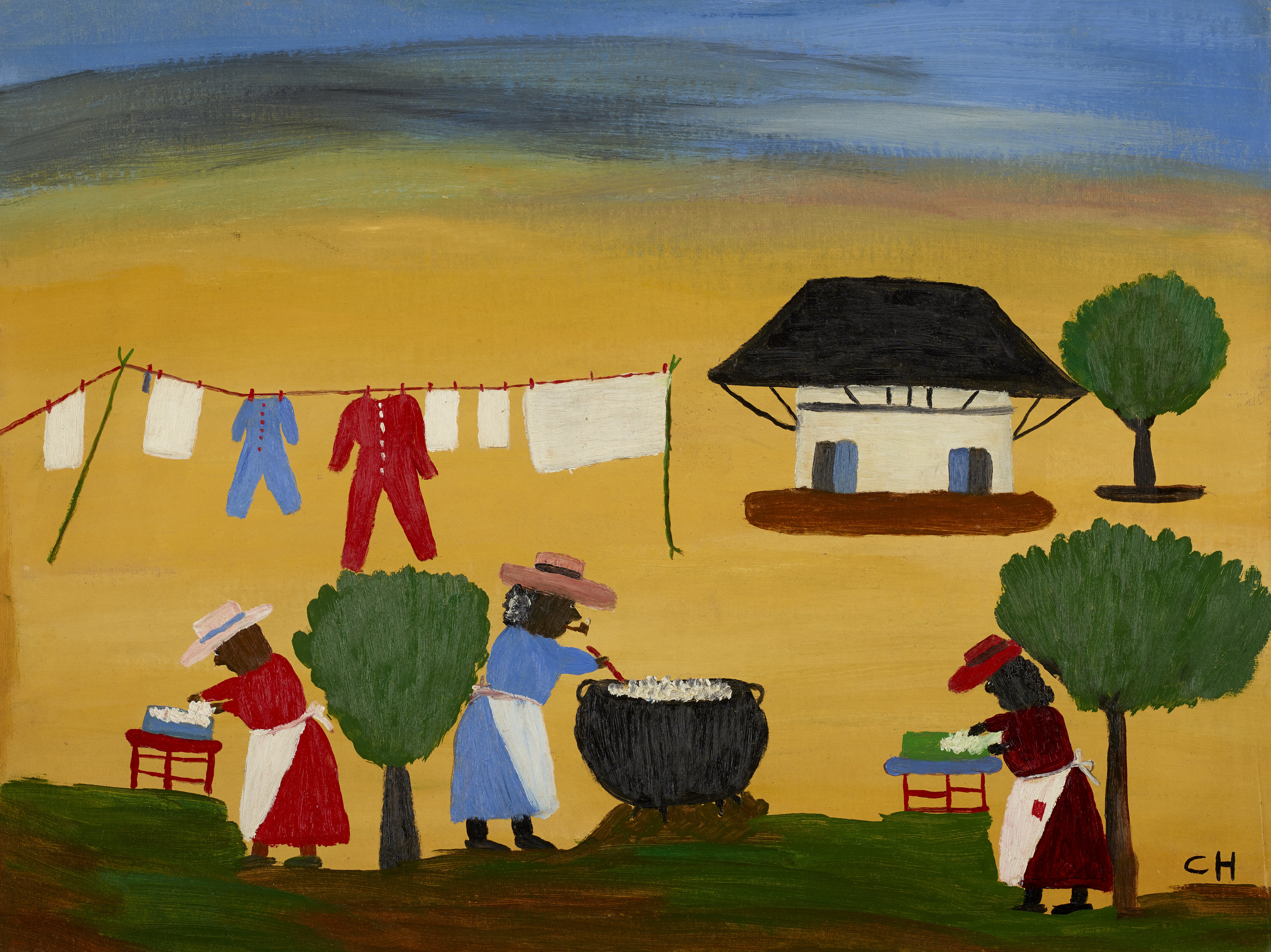 Genre. Naive. Primitive. African American. Three figures doing the wash in the foreground, clothesline and Africa House (Melrose Plantation) in the background.